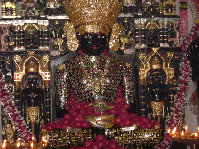 Mulnayak Shri Adinath Bhagwan,BIBROD, RATLAM